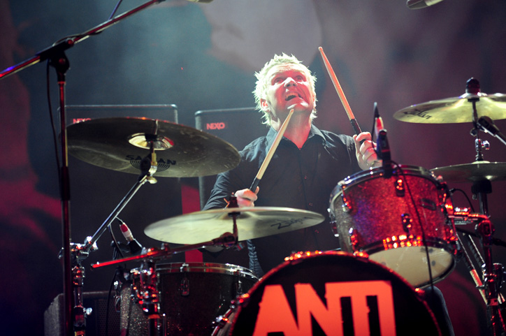 Soundwave Festival 2010